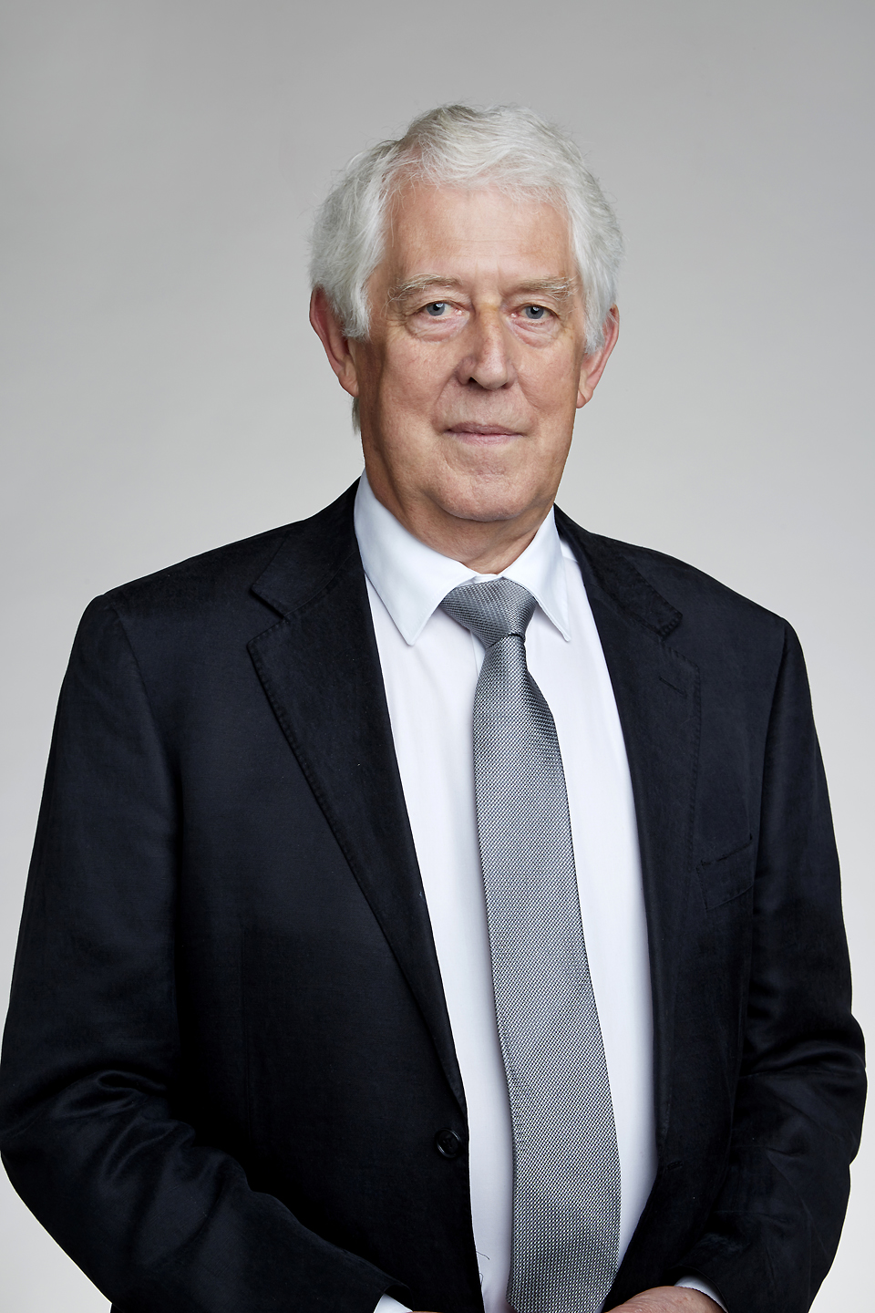 David William Hight (born 1943) FRS is a Senior Consultant at the Geotechnical Consulting Group a company providing high-level expertise in the field of geotechnical engineering and well known for bridging the gap between research and engineering practice Attribution: The Royal Society